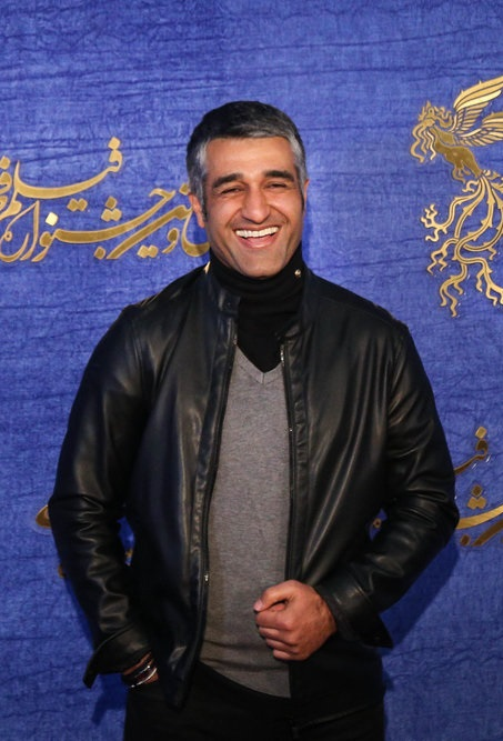 Pejman Jamshidi